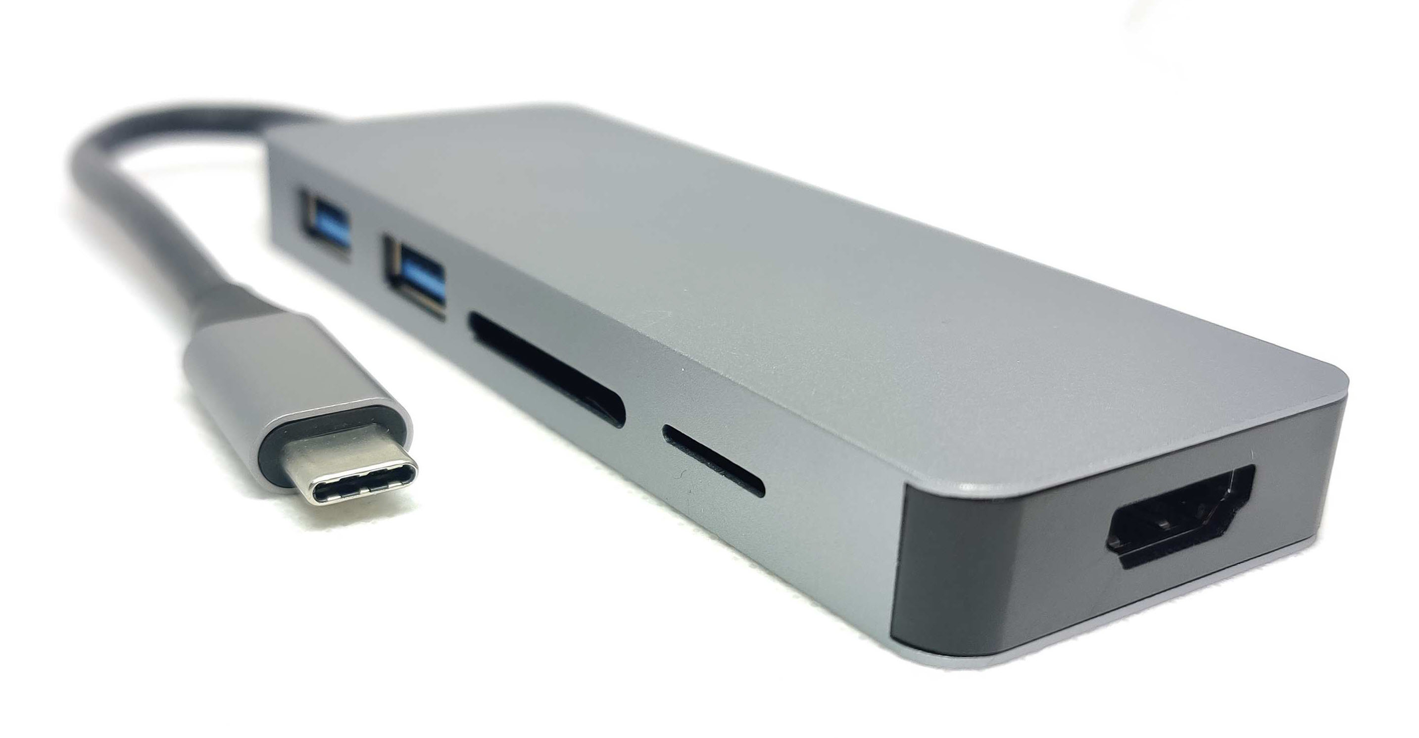 USB-C hub with 5 ports (HDMI, SD-card reader and USB-A 3.0)